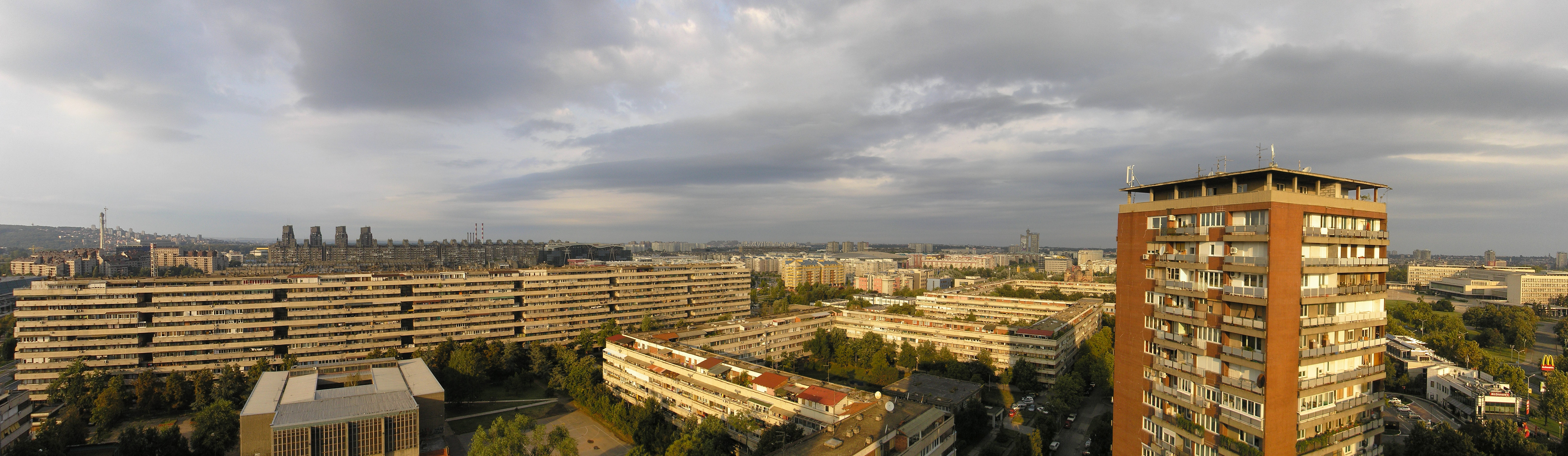 A 180° panorama of New Belgrade, taken on approximate height of 38 meters and from its eastern edge.